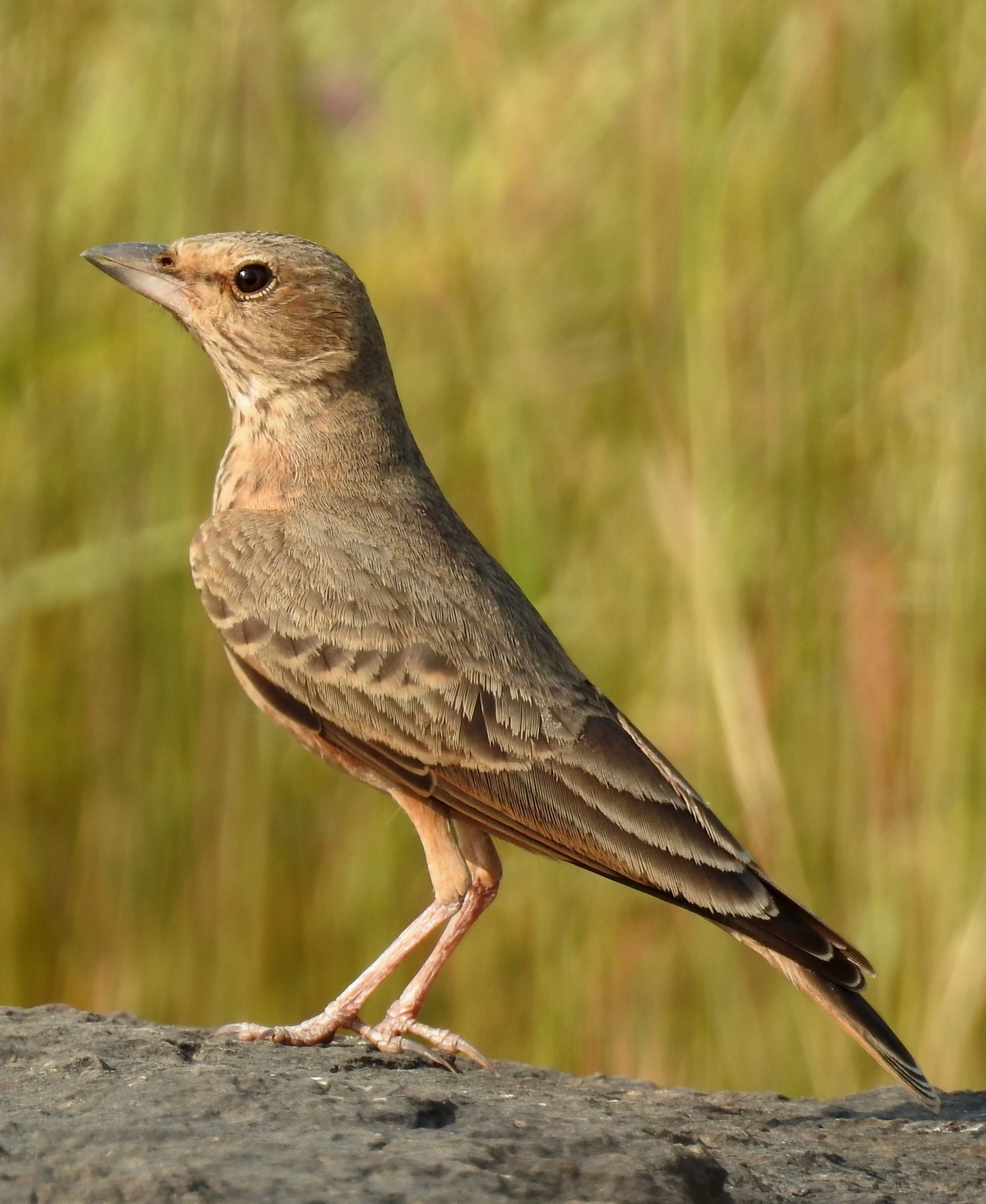 Rufous-tailed Lark Ammomanes phoenicura. Image by Dr. Raju Kasambe Location: Near Dombivli, dist. Thane, Maharashtra.